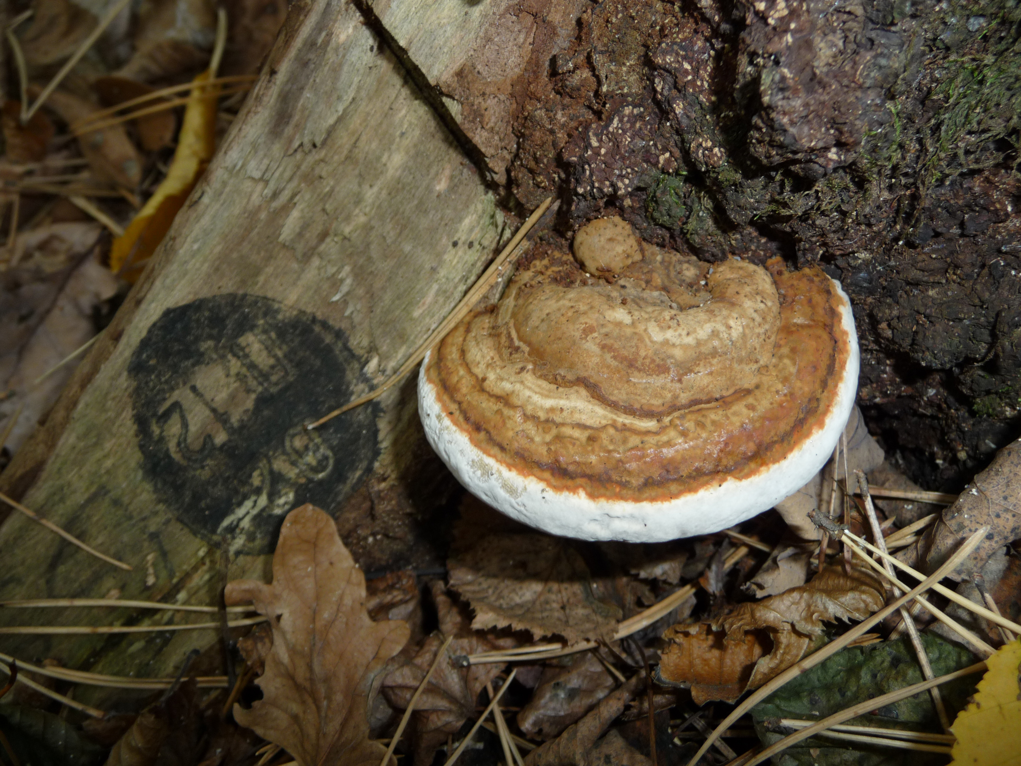 Red Banded Polypore (Fomitopsis pinicola). The younger fruiting body is orange. Closed wood (wildlife reserve) near Vinnitsa, Ukraine. The forester's brand on this sick tree marks it for felling.